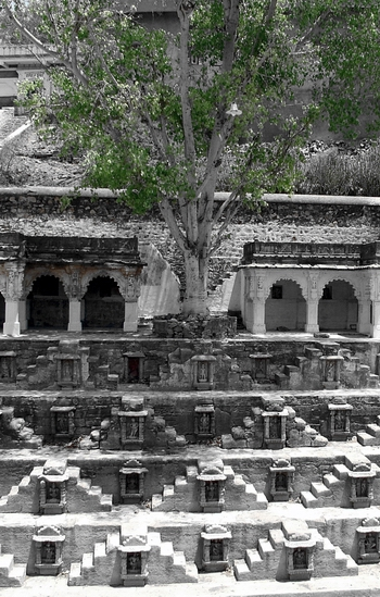 A snapshot of Brahma Kund, Sihor